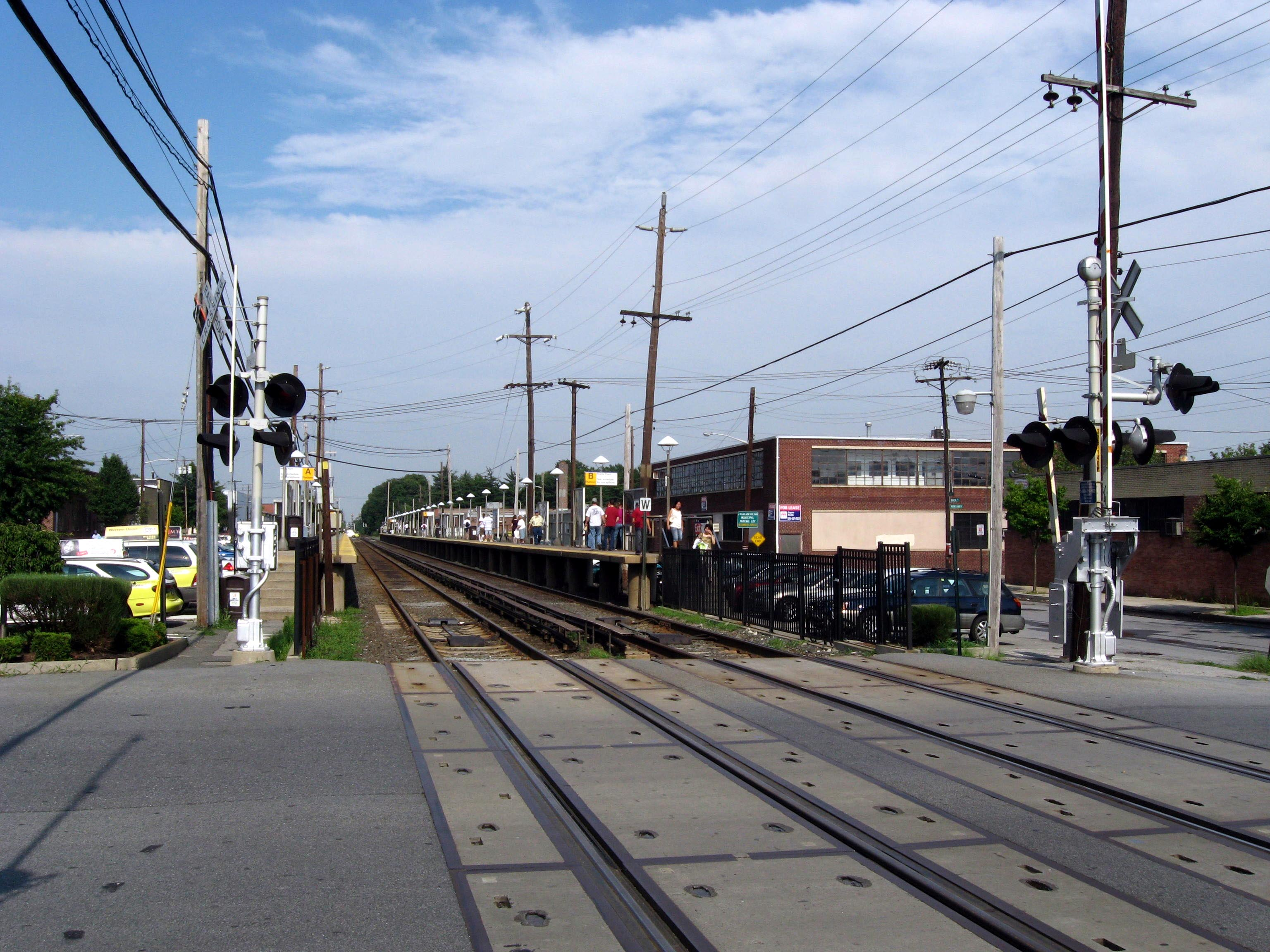 Looking east at New Hyde Park (LIRR station) early in the afternoon.